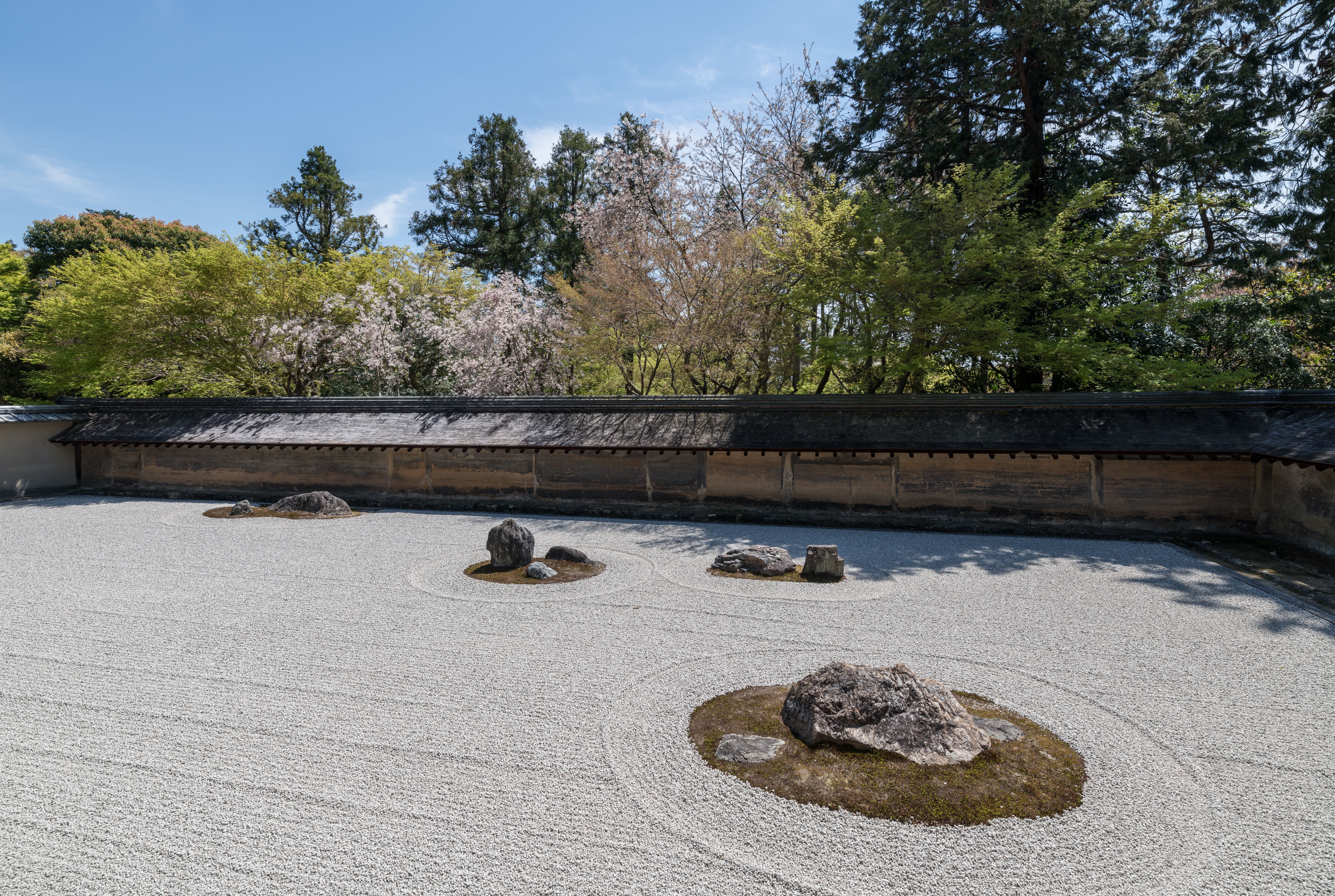 A view of the Kare-sansui (dry landscape) zen garden, Ryōan-ji, Kyoto